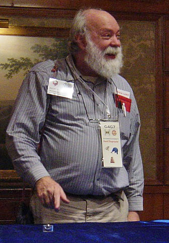 Mathematician David Singmaster at the Seventh Gathering for Gardner (G4G7) in Atlanta, GeorgiaDavid Singmaster